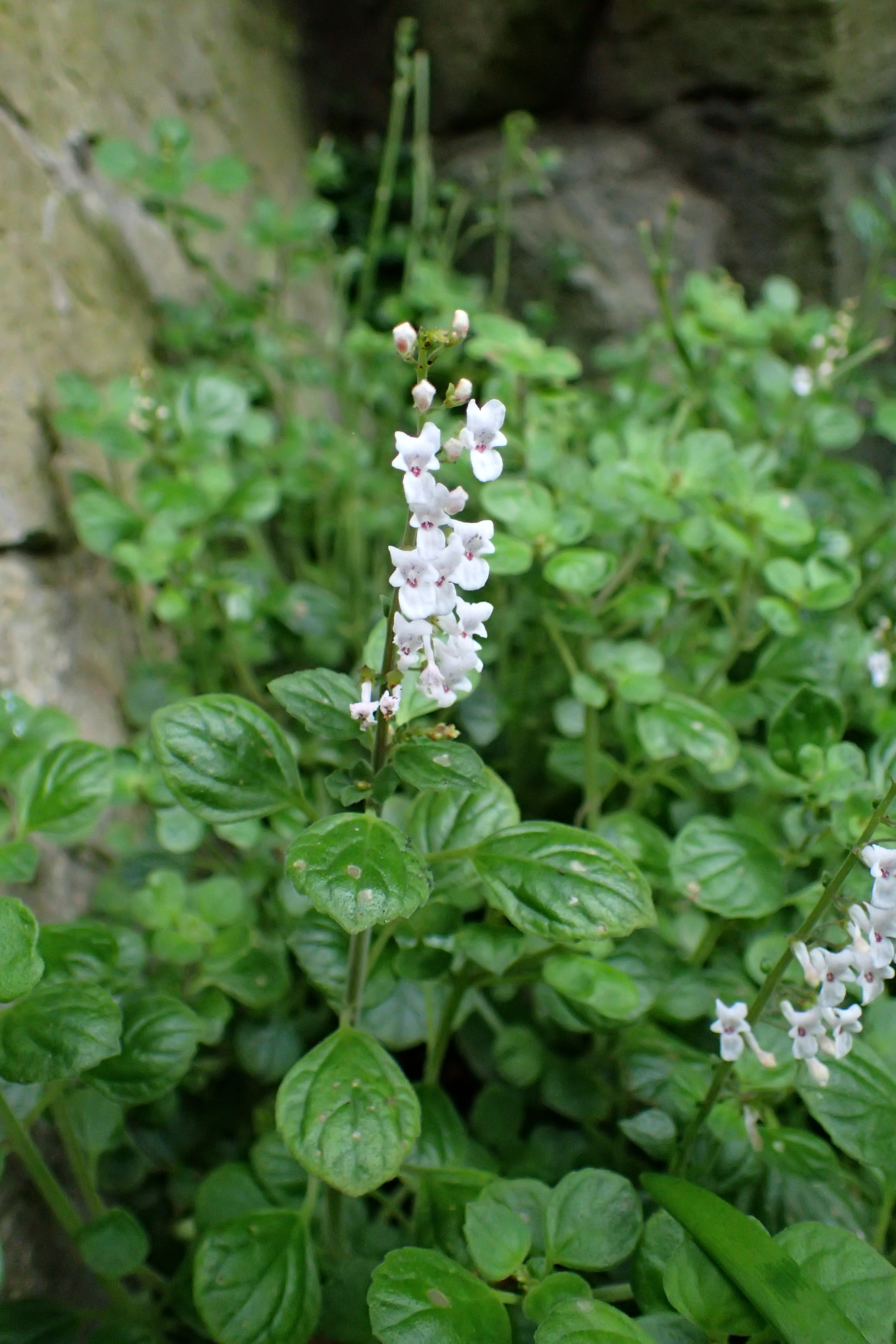 Plectranthus strigosus in the Brooklyn Botanic Garden